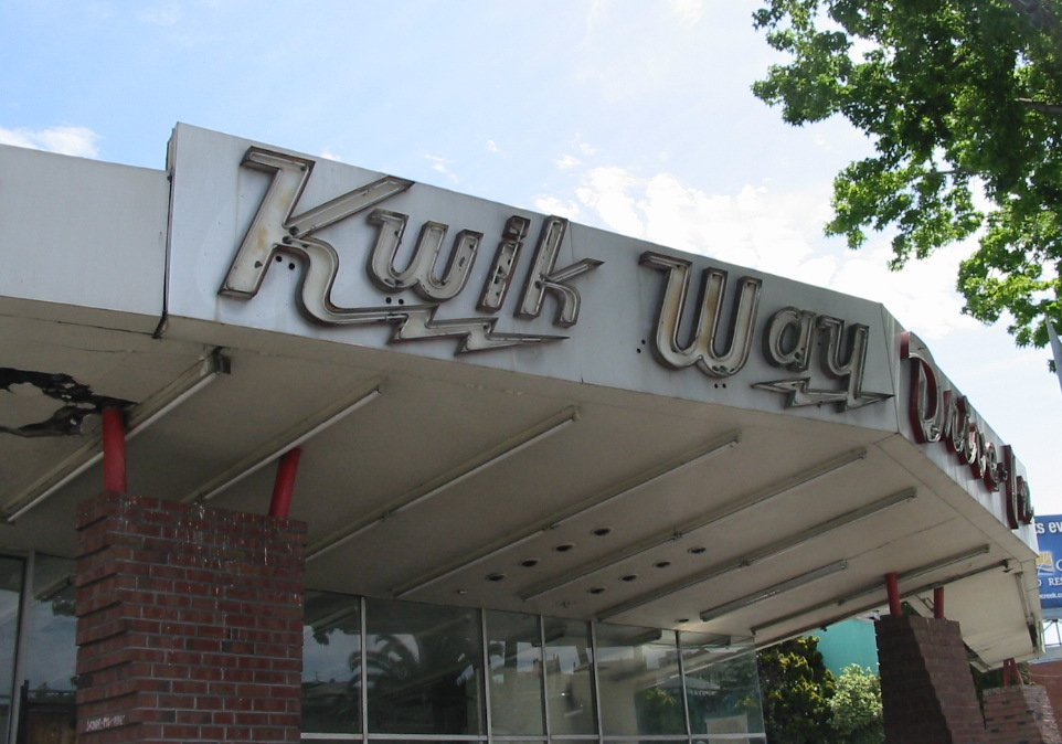 Oakland, California, on April 30, 2009. The Kwik Way location on Lake Park has been empty for some time. It has not yet been refurbished and reopened.